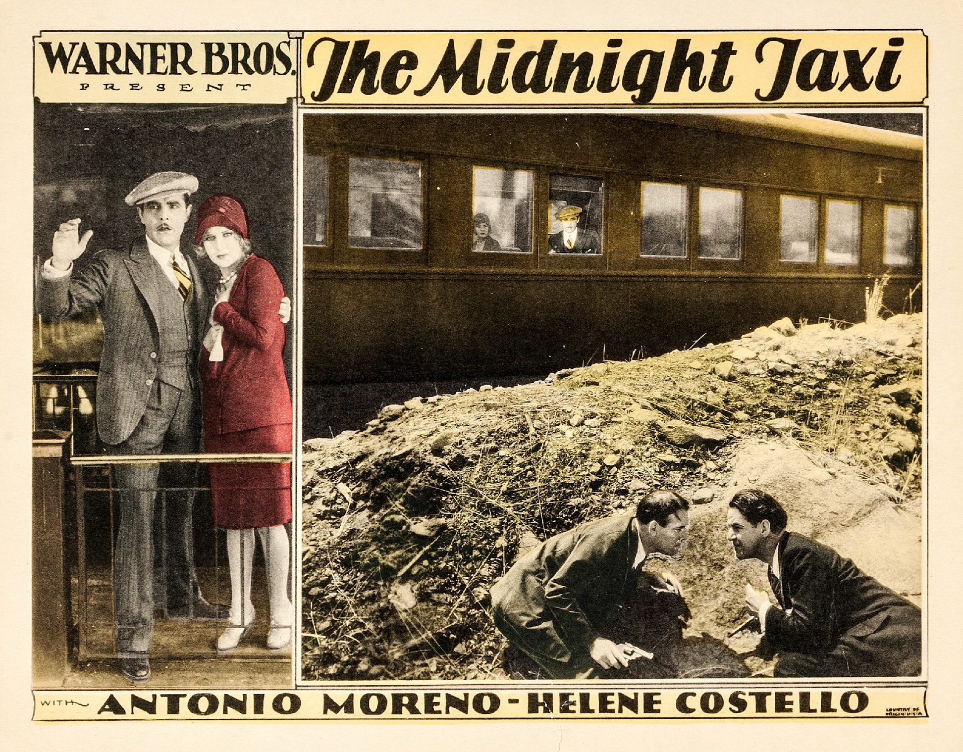 Lobby card for the American drama film The Midnight Taxi (1928).